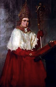 Cardinal Zbigniew Oleśnicki